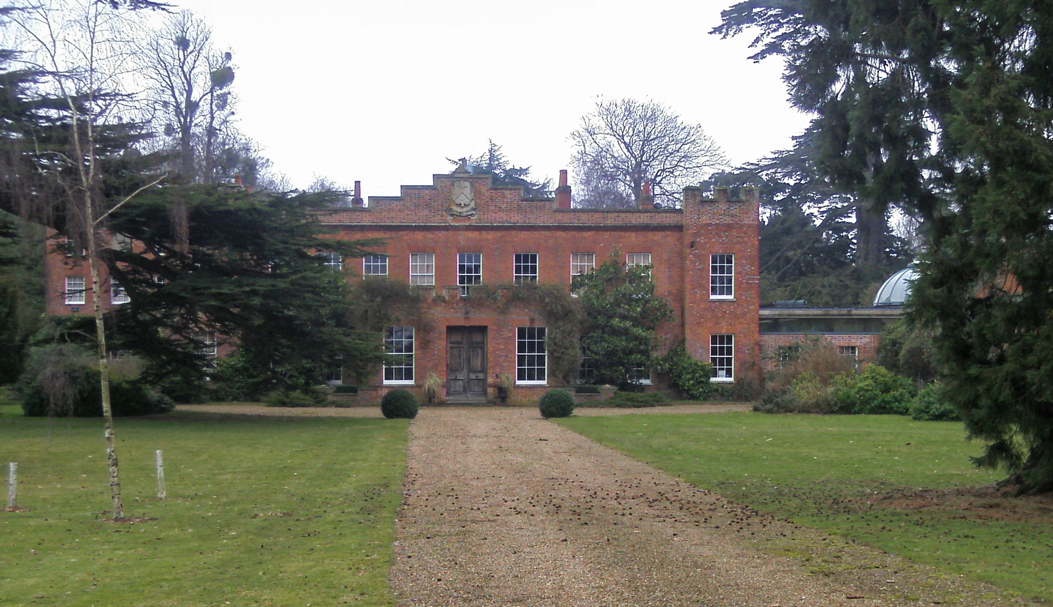 Crowsley Park house, Binfield Heath, Oxfordshire